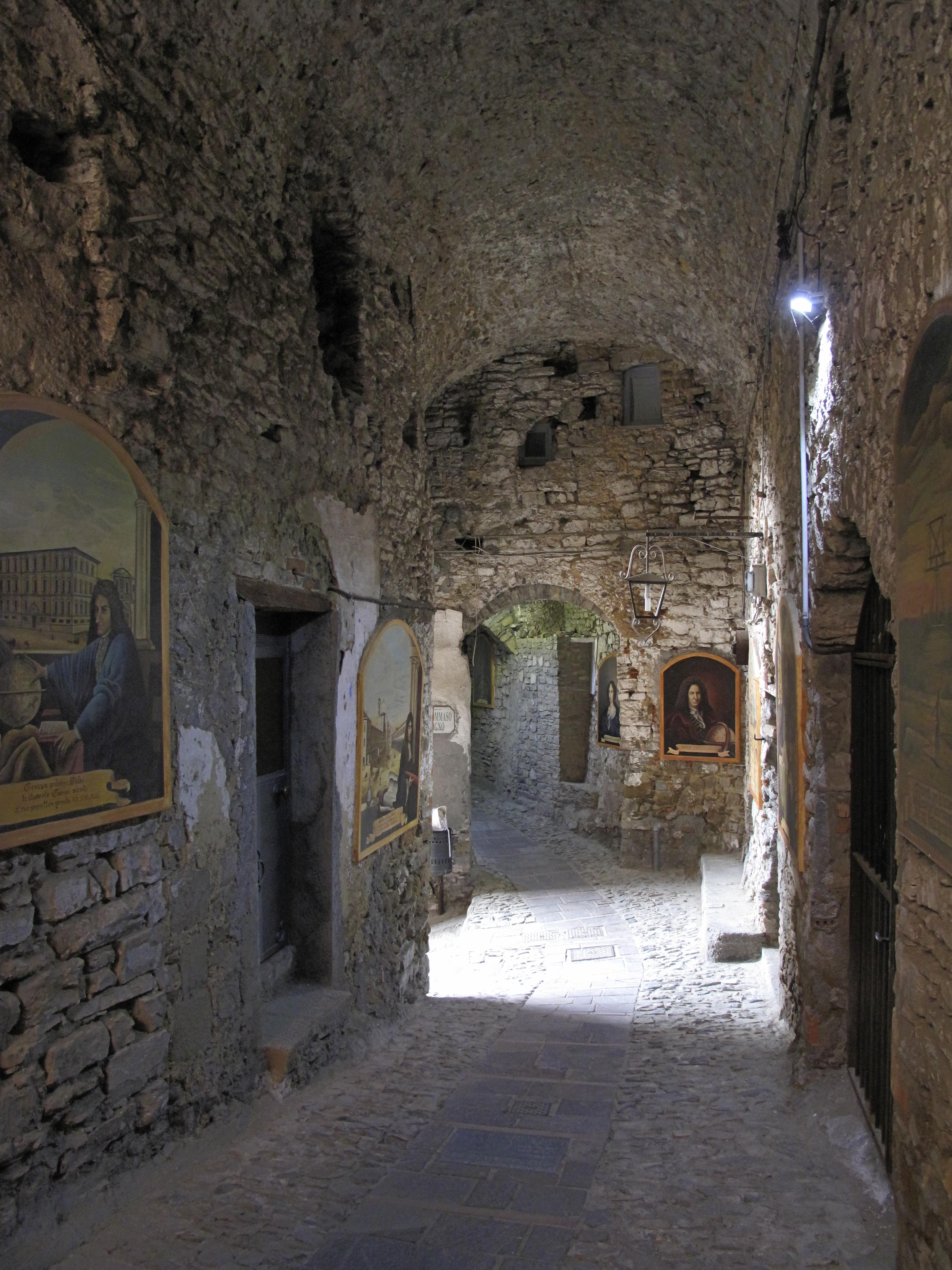 Covered street in the Italian village of Perinaldo (Liguria, Italy).